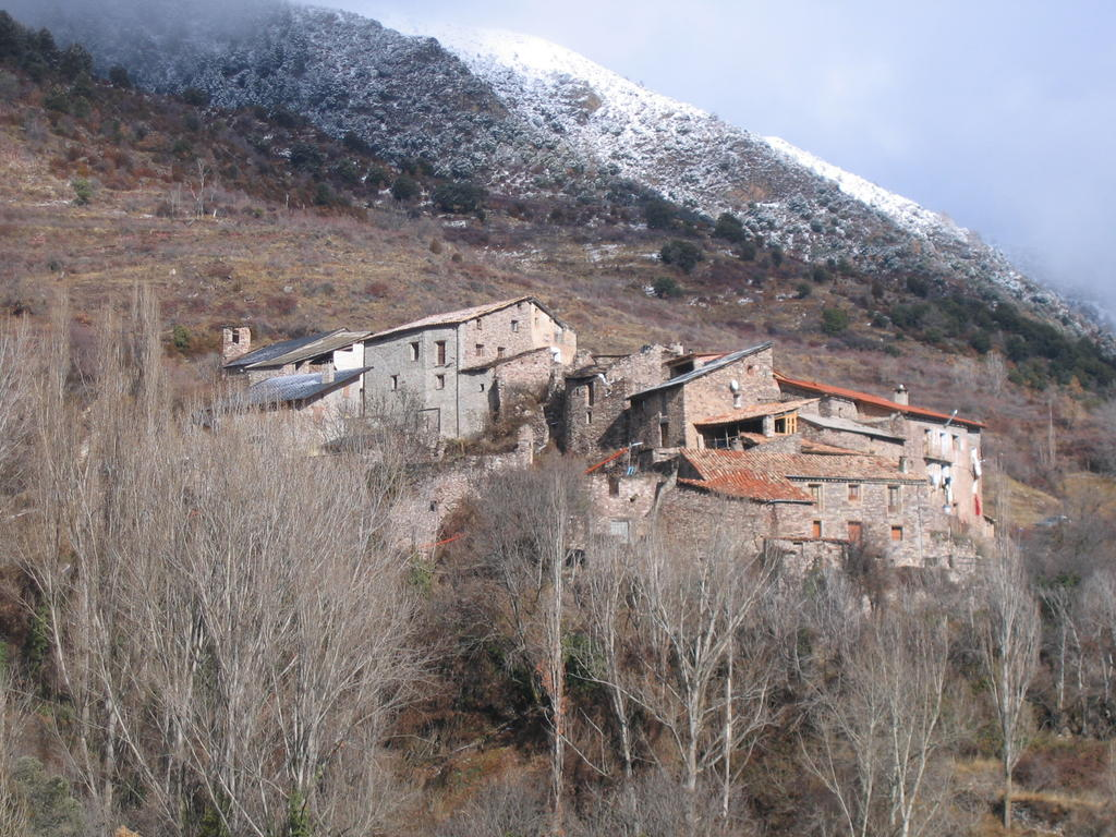 view of Mencui / Spain